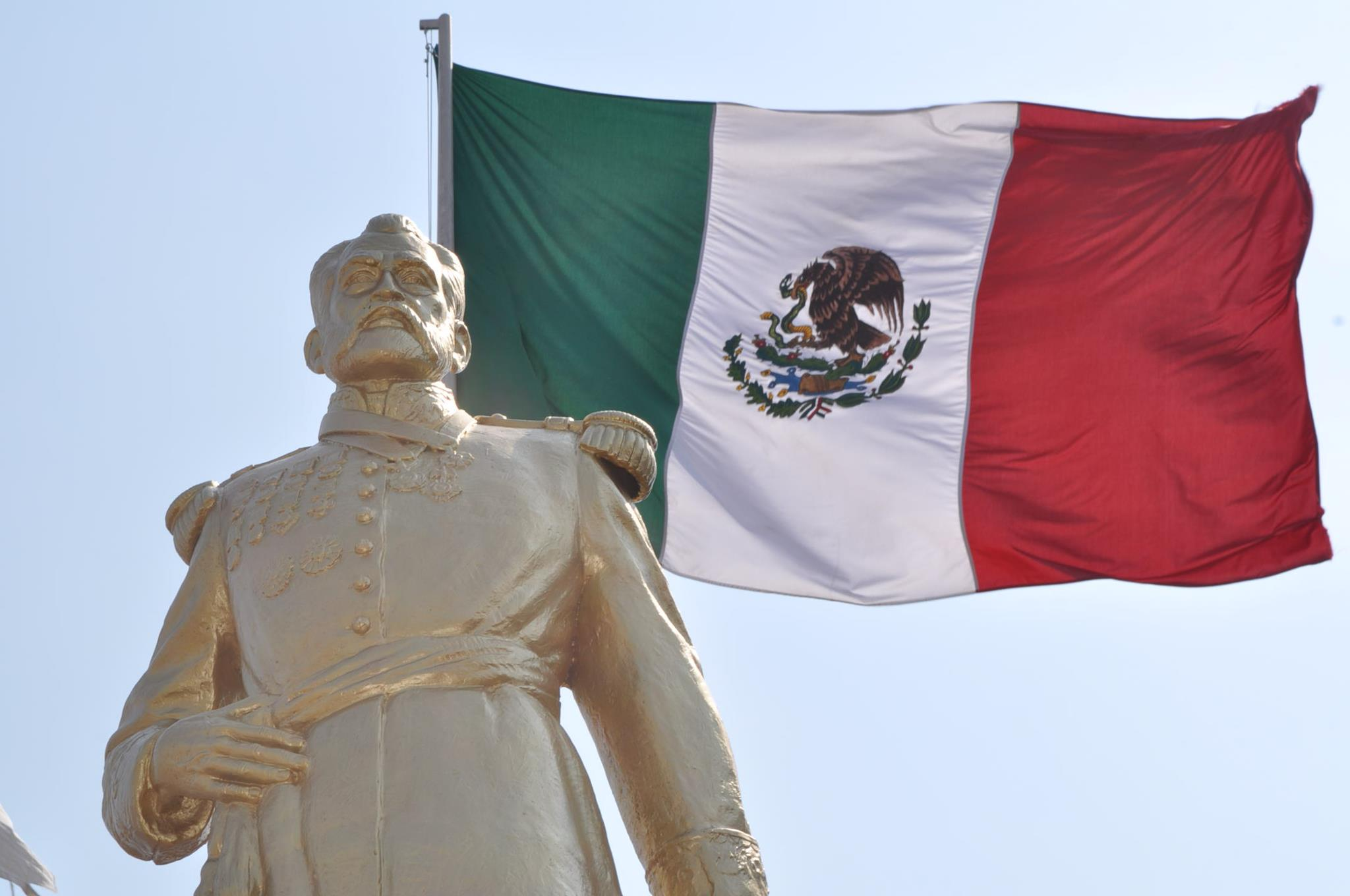 Statue of General Felipe Berriozábal